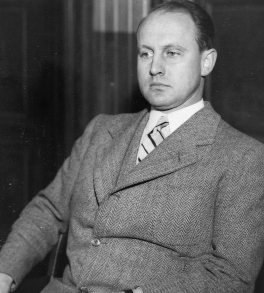 Norwegian professor of archeaology Hans Peter L'Orange (academic)|Hans Peter L'Orange (1903–1983). Photo around 1930 til 1935